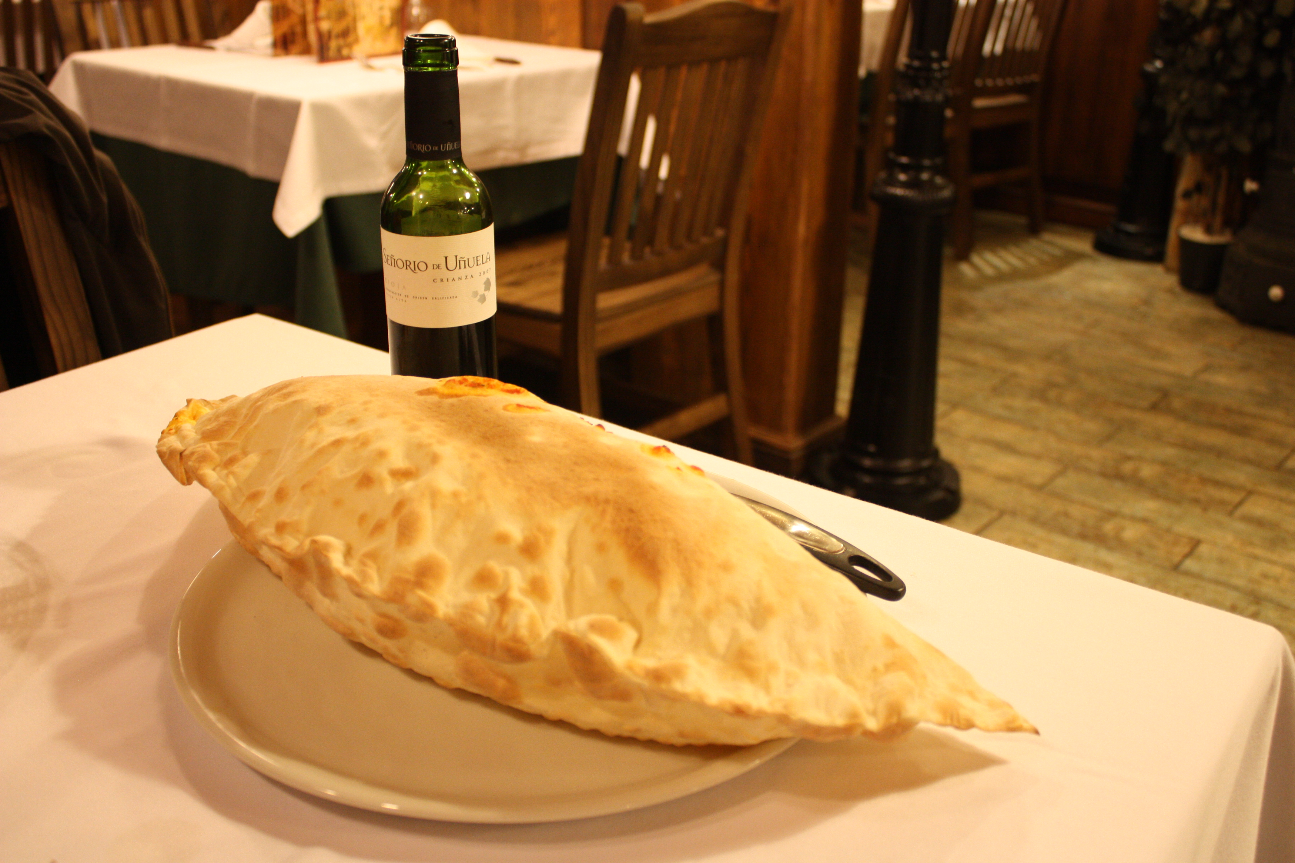 Calzone, Trastevere restaurant, Calle Ledesma, Bilbao, Biscay, Spain, July 2010 (possibly the most inflated and worst calzone ever not eaten)